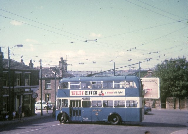 Bradford Trolleybus turning at Thackley Corner